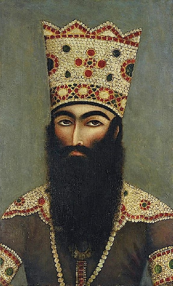 Portrait of Prince Mohammad Taghi Mirza